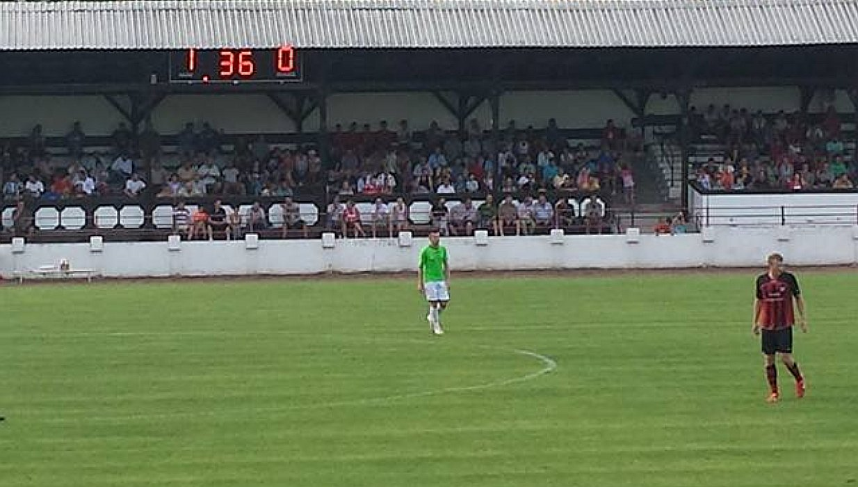 The stadium got a twin digital timer in the Centenary year. One of location is on the tribune other one is on the opposite side.